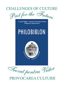 the "logo" of the Philobiblon Journal